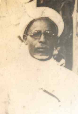 Shaikh Ahmad bin Muhammad Surkati al-Anshori